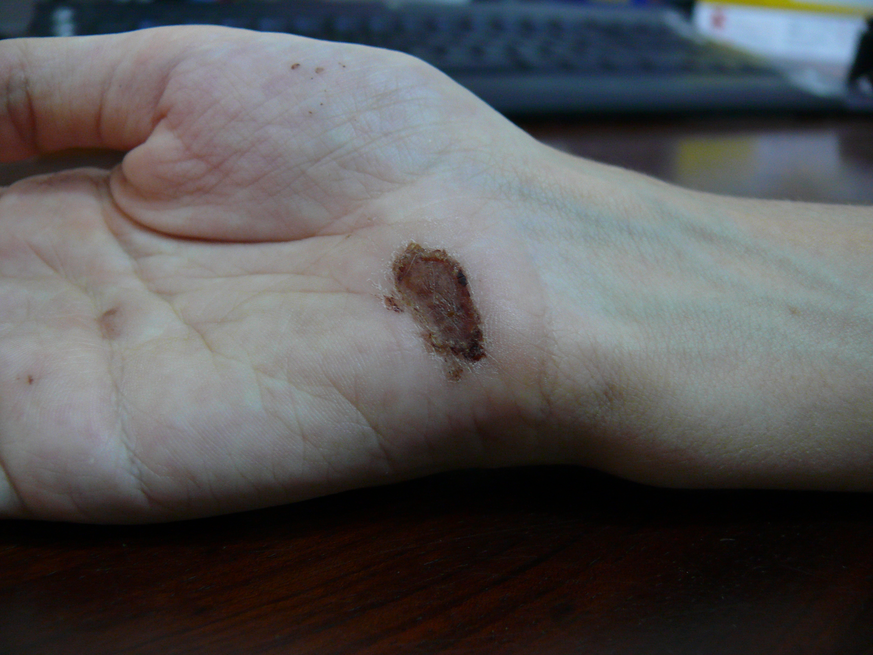 Wound on palm of hand eight days after falling off a bike onto concrete. Previous photos: Day 1: Image:Wound on palm of hand.jpg Day 2: Image:Wound on palm of hand - day 2.jpg Day 3: Image:Wound on palm of hand - day 3.jpg Day 4: Image:Wound on palm of hand - day 4.jpg Day 5: Image:Wound on palm of hand - day 5.jpg Day 6: Image:Wound on palm of hand - day 6.jpg Day 7: Image:Wound on palm of hand - day 7.jpg Following photos: Day 9: Image:Wound on palm of hand - day 9.jpg Day 10: Image:Wound on palm of hand - day 10.jpg Day 11: Image:Wound on palm of hand - day 11.jpg Day 12: Image:Wound on palm of hand - day 12.jpg Day 13: Image:Wound on palm of hand - day 13.jpg Day 14: Image:Wound on palm of hand - day 14.jpg Day 15: Image:Wound on palm of hand - day 15.jpg Day 16: Image:Wound on palm of hand - day 16.jpg Day 17: Image:Wound on palm of hand - day 17.jpg Day 18: Image:Wound on palm of hand - day 18.jpg Day 19: Image:Wound on palm of hand - day 19.jpg Day 20: Image:Wound on palm of hand - day 20.jpg